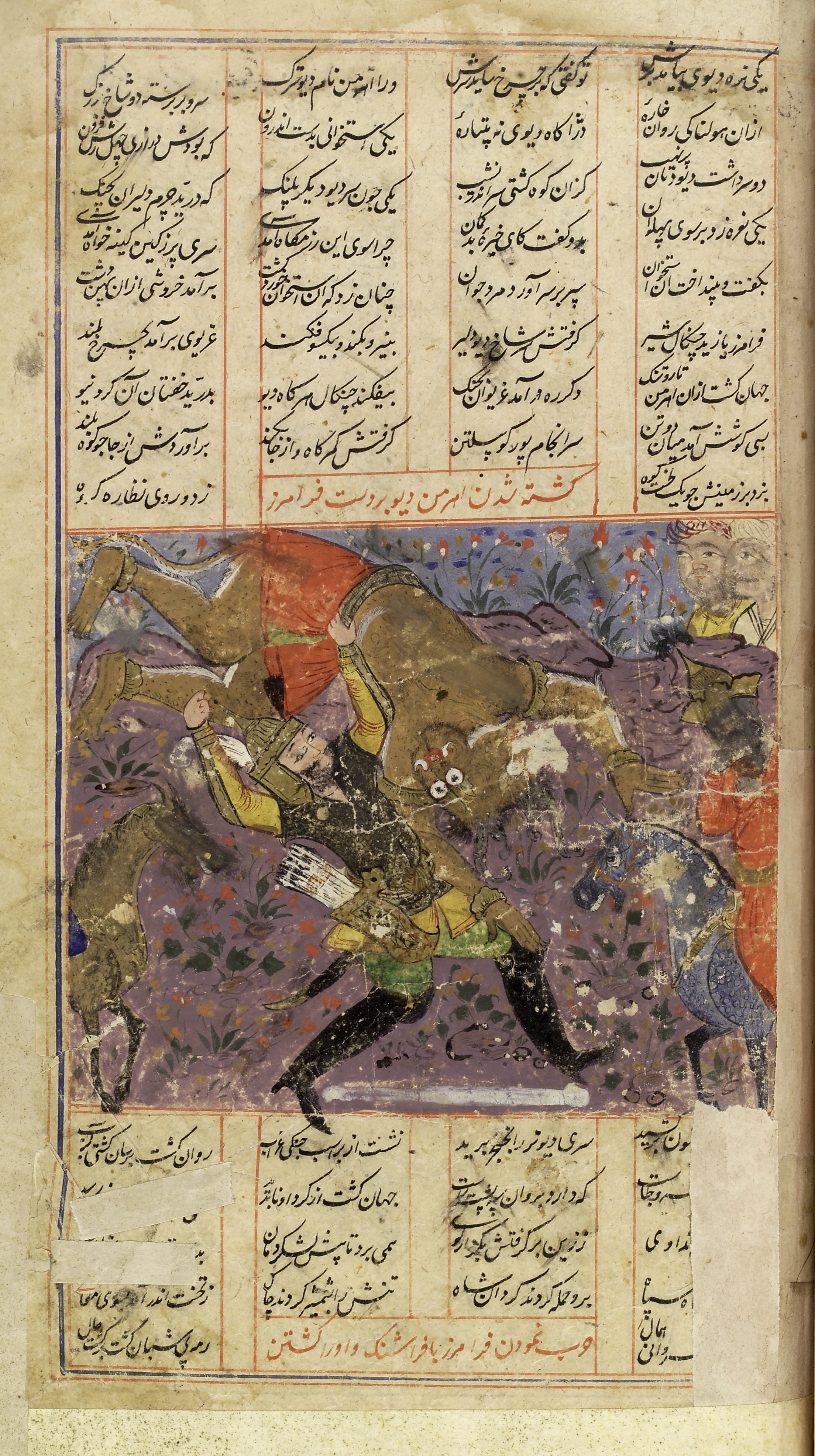 Faramarz kills Ahriman div, from the Shah Nameh, 10th century Persian epic of the Kings Asian Collection Keywords: Iran; Abu al-Qasim Firdawsi of Tus; Iranian; Fighting; Persian; Battles; Hero; Ferdowsi